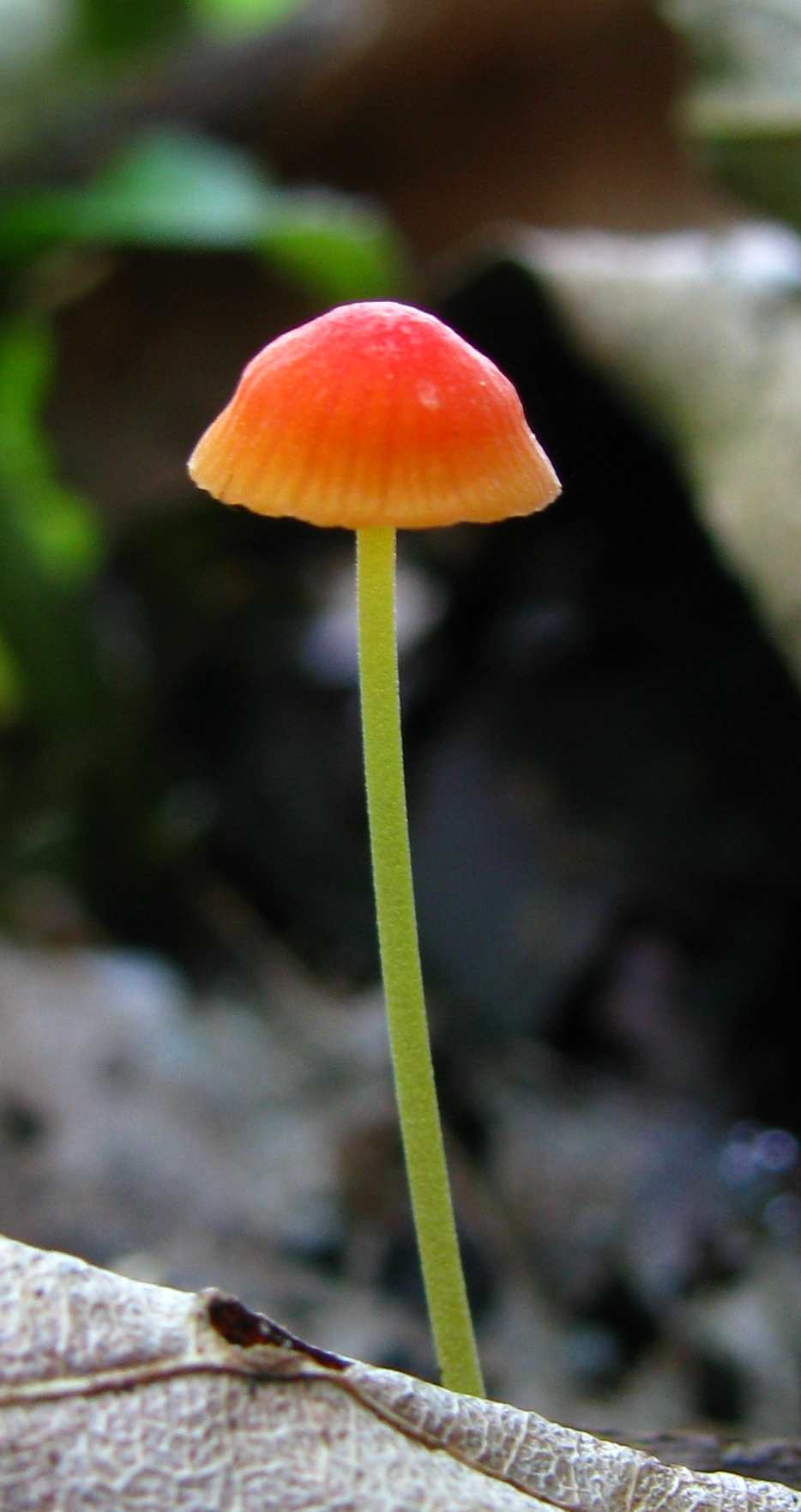 Mycena acicula (Schaeff.) P. Kumm. Location: Wayne National Forest, Hocking county, Ohio, USA For more information about this, see the observation page at Mushroom Observer.